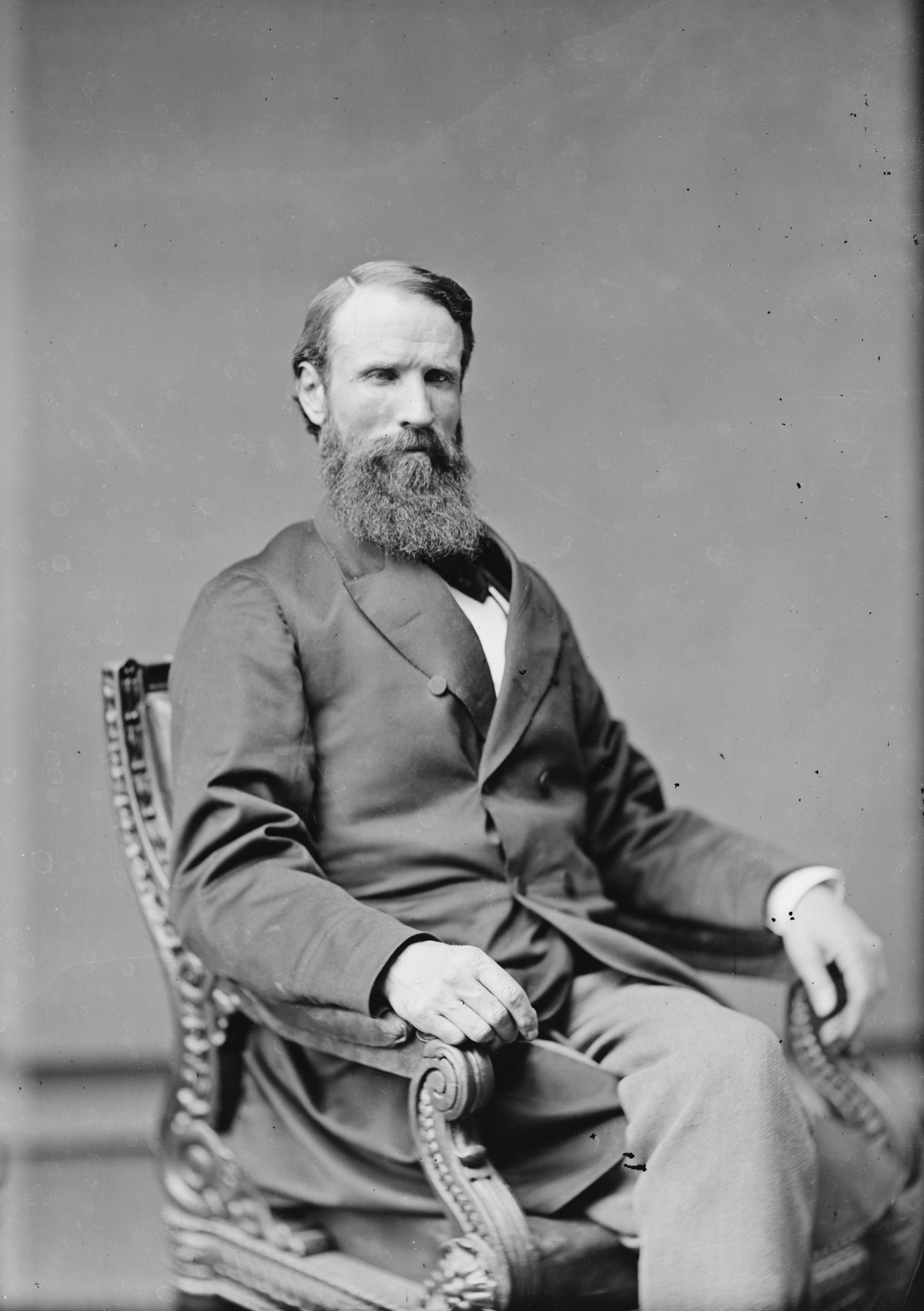 James Wilson, U.S. politician